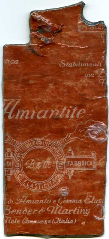 Piece of Amiantite. For health reason it has been covered with some thick layers of vinyl glue for outdoor use EN 204 D3 standard compliant.